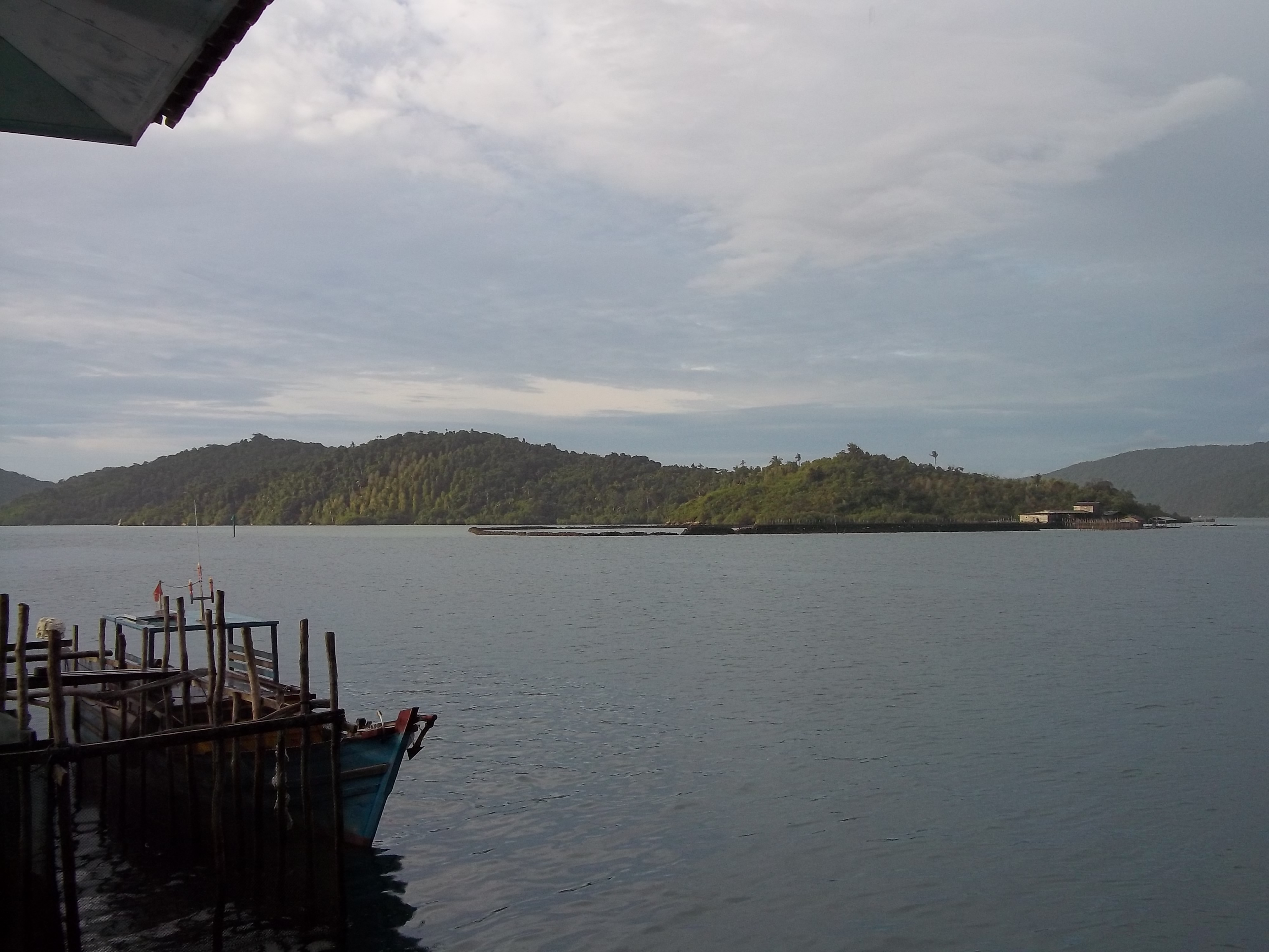 Afternoon in Palmatak Island, Anambas Islands, Riau Islands Province, Indonesia